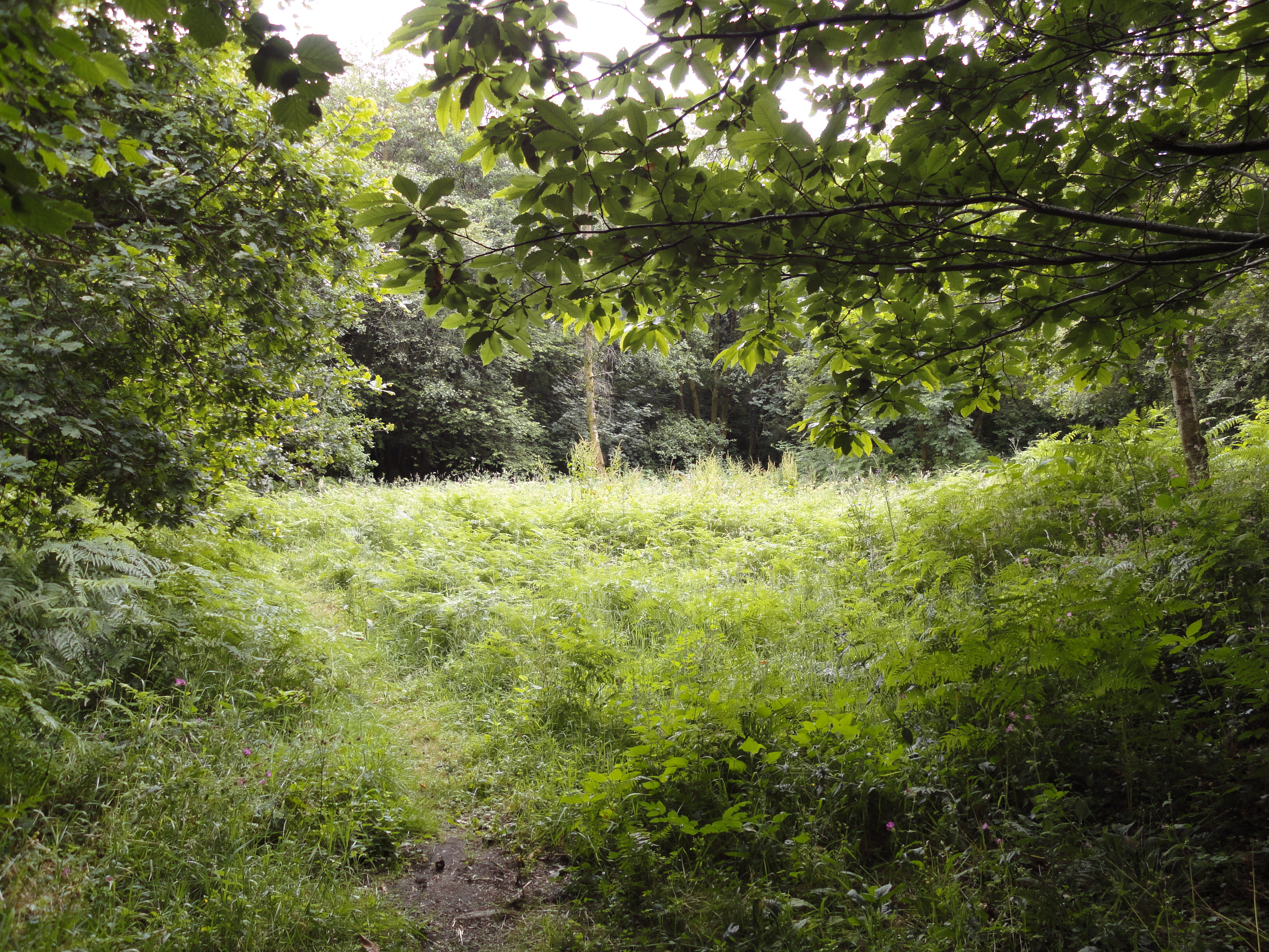 Bryngarw Country Park, Wet Triangle